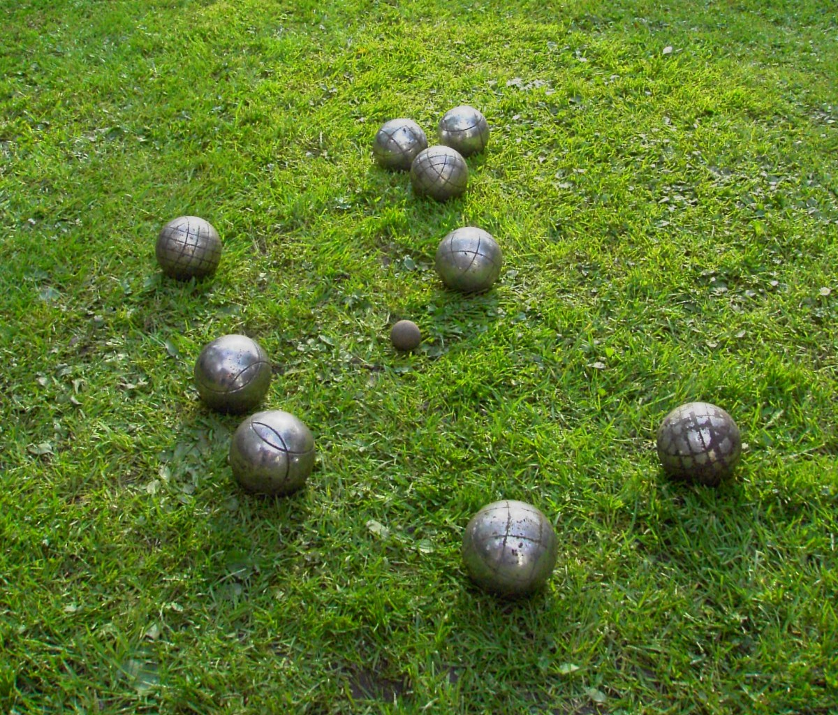 Description: Boule or Pétanque on grass Source: Own photo, 2005 Photographer: Arne Nordmann (user:norro)